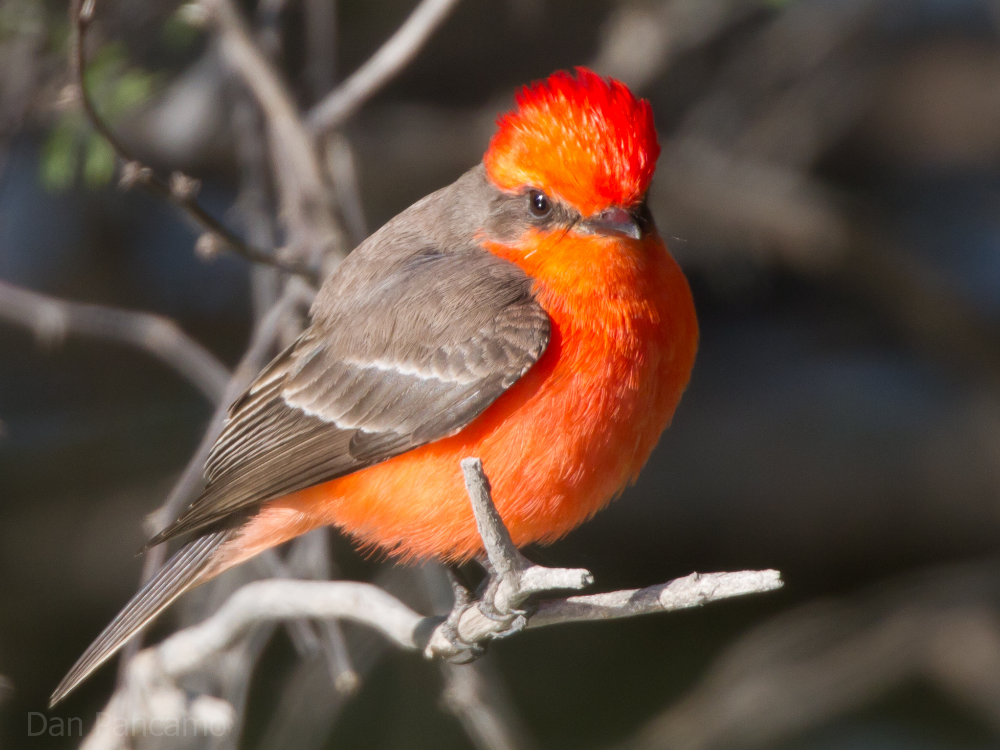 Vermilion Flycatcher